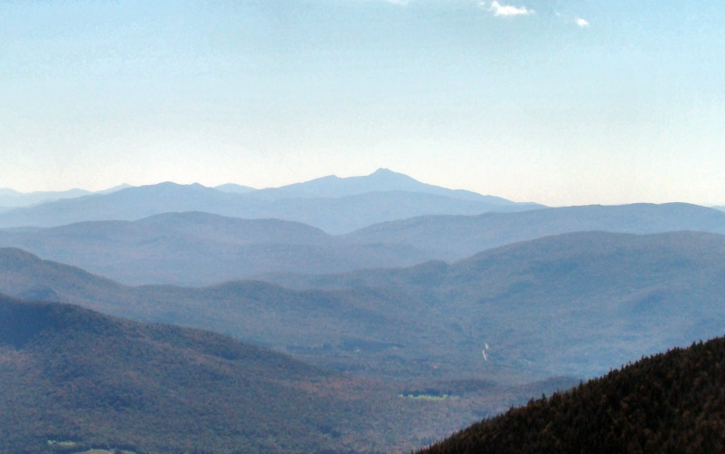 Picture of the Green Mountains of Vermont. The viewpoint is the summit of Jay Peak.